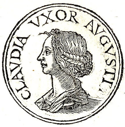 Clodia Pulchra was the daughter of Fulvia (later wife of Mark Antony) and her first husband Publius Clodius Pulcher.